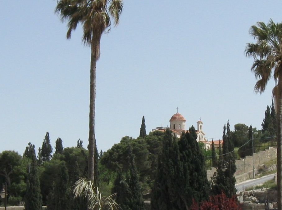 Bethphage beautiful greek orthodox church